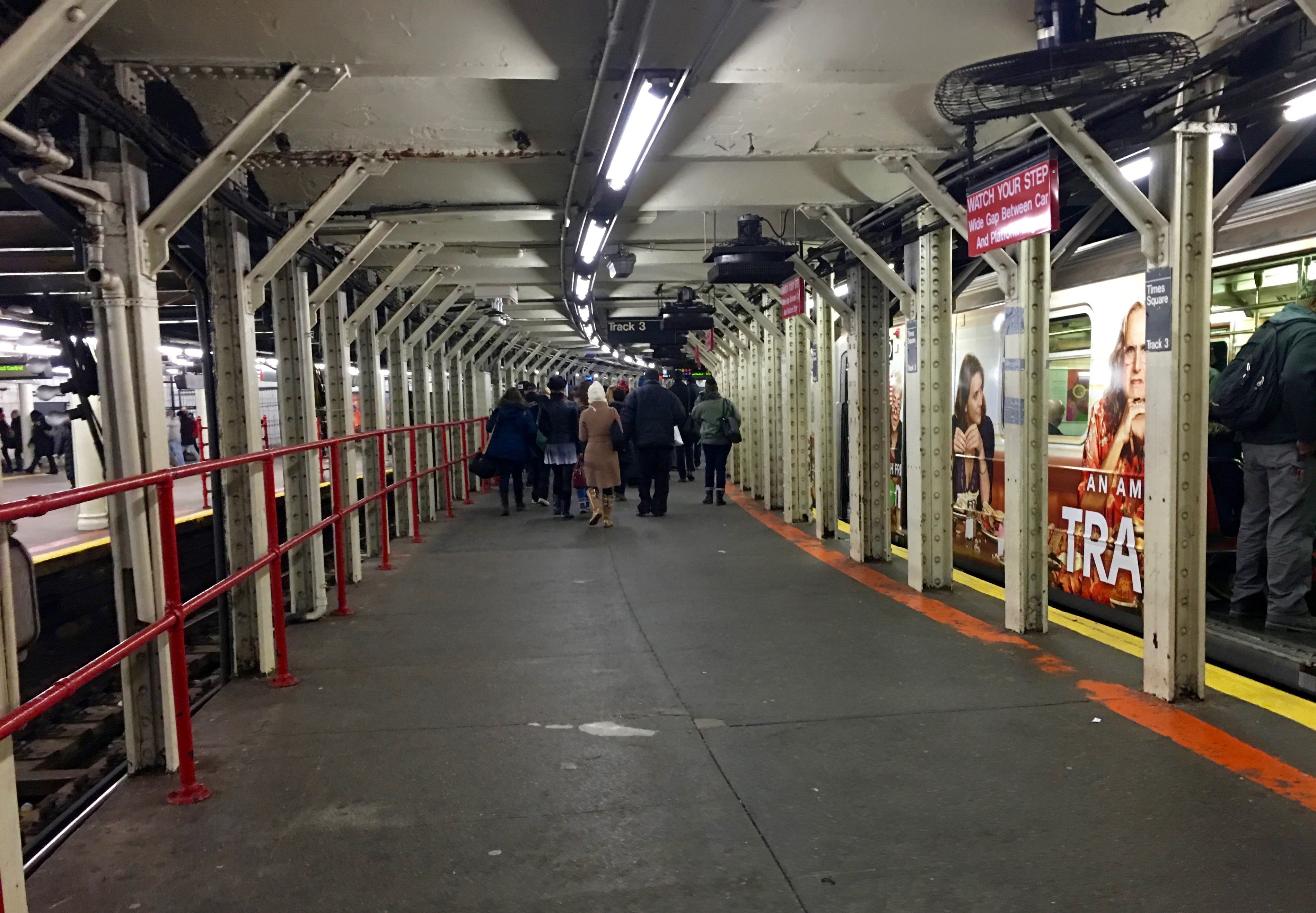 Shuttle track 3 and platform at Times Square - 42nd Street on the S.